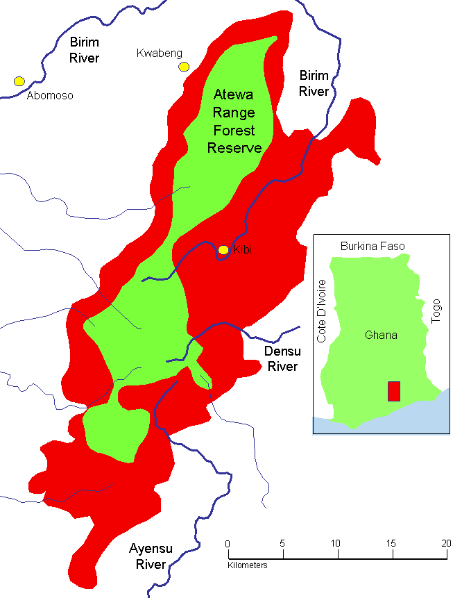 Sketch map of the Atewa Range in Ghana, showing the forest reserve boundaries